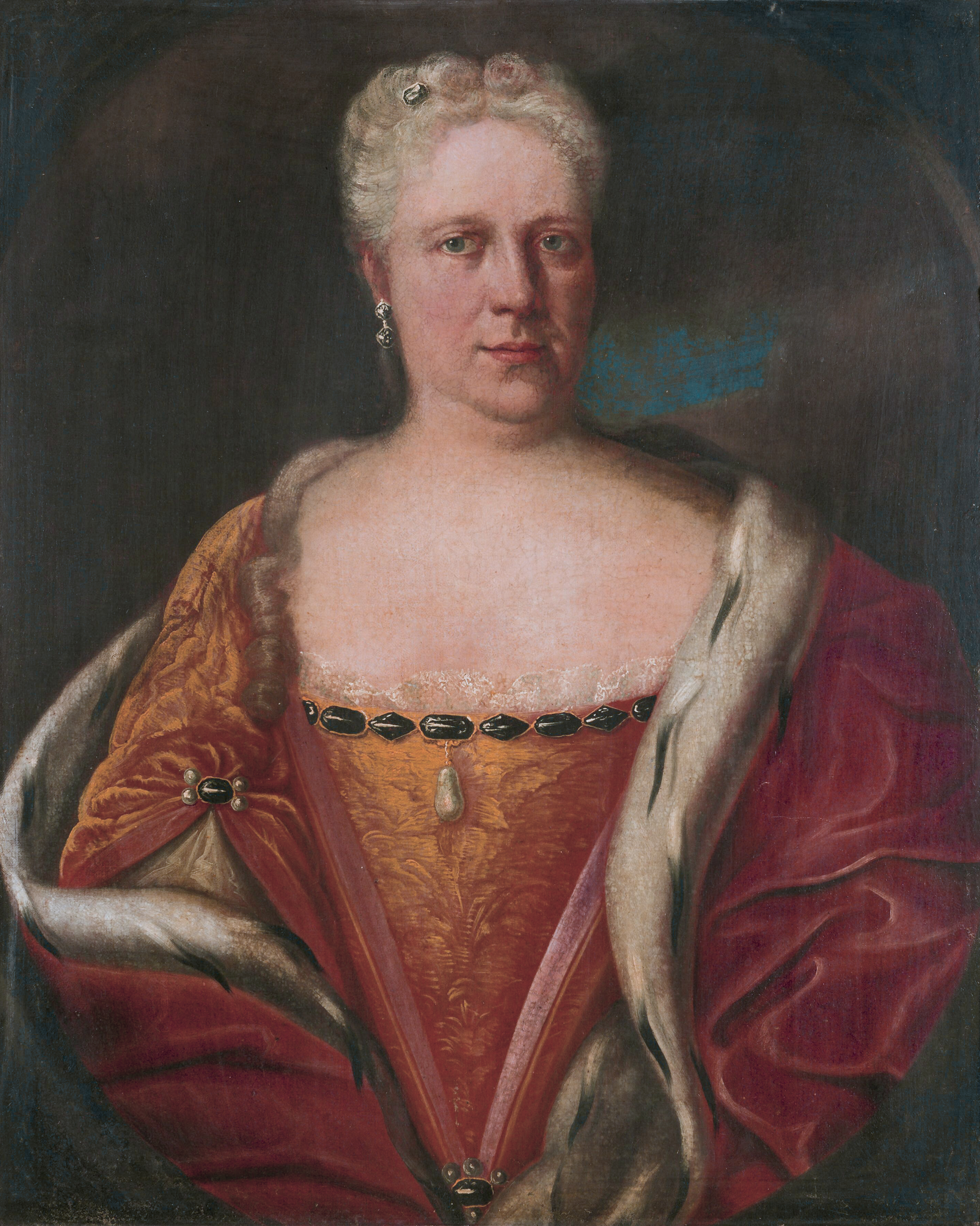 Portrait of Christiane Charlotte of Nassau-Ottweiler (1685-1761), Countess of Hesse-Homburg